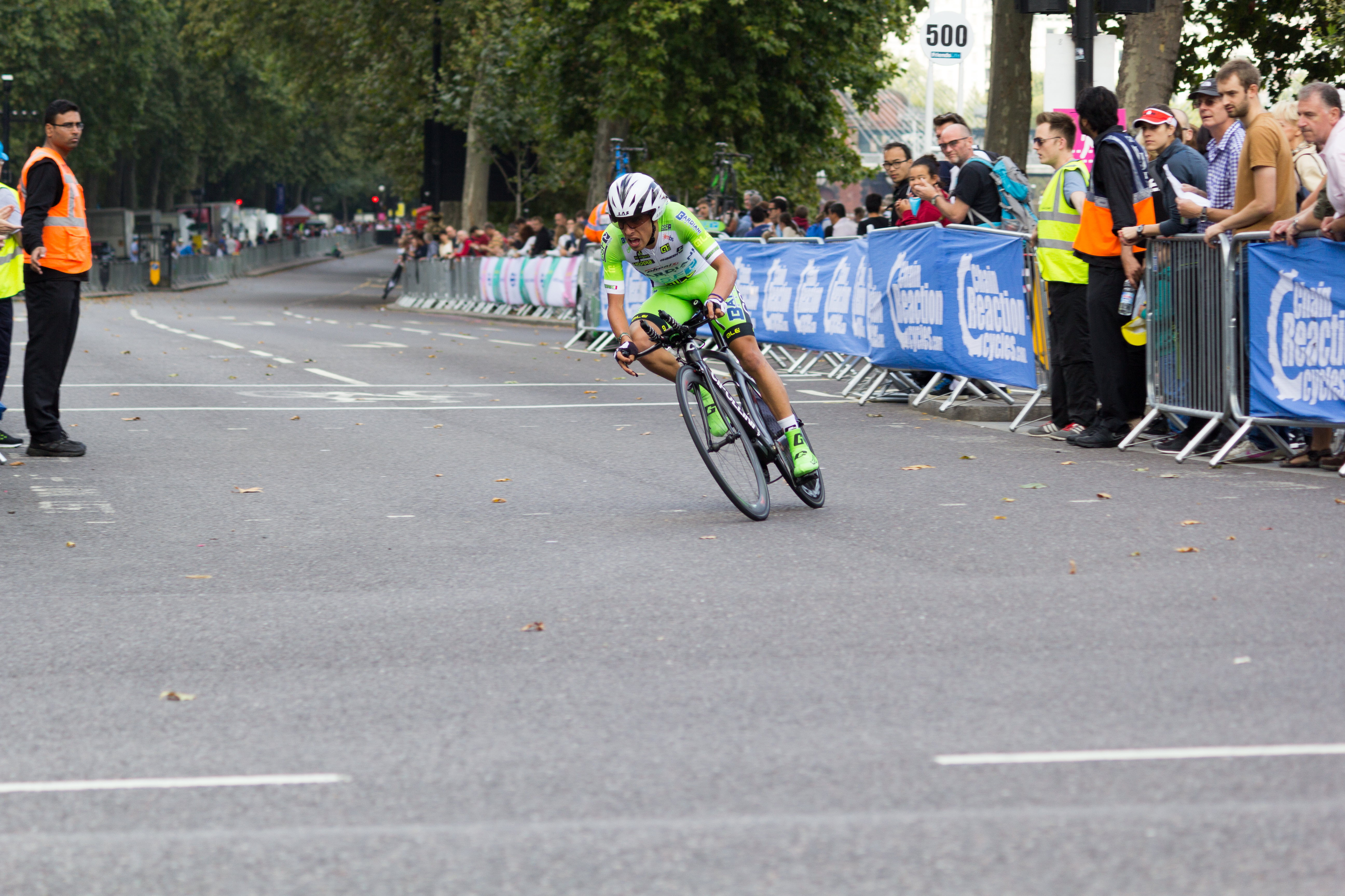 Tour of Britain 2014 stage 8a - London time trial